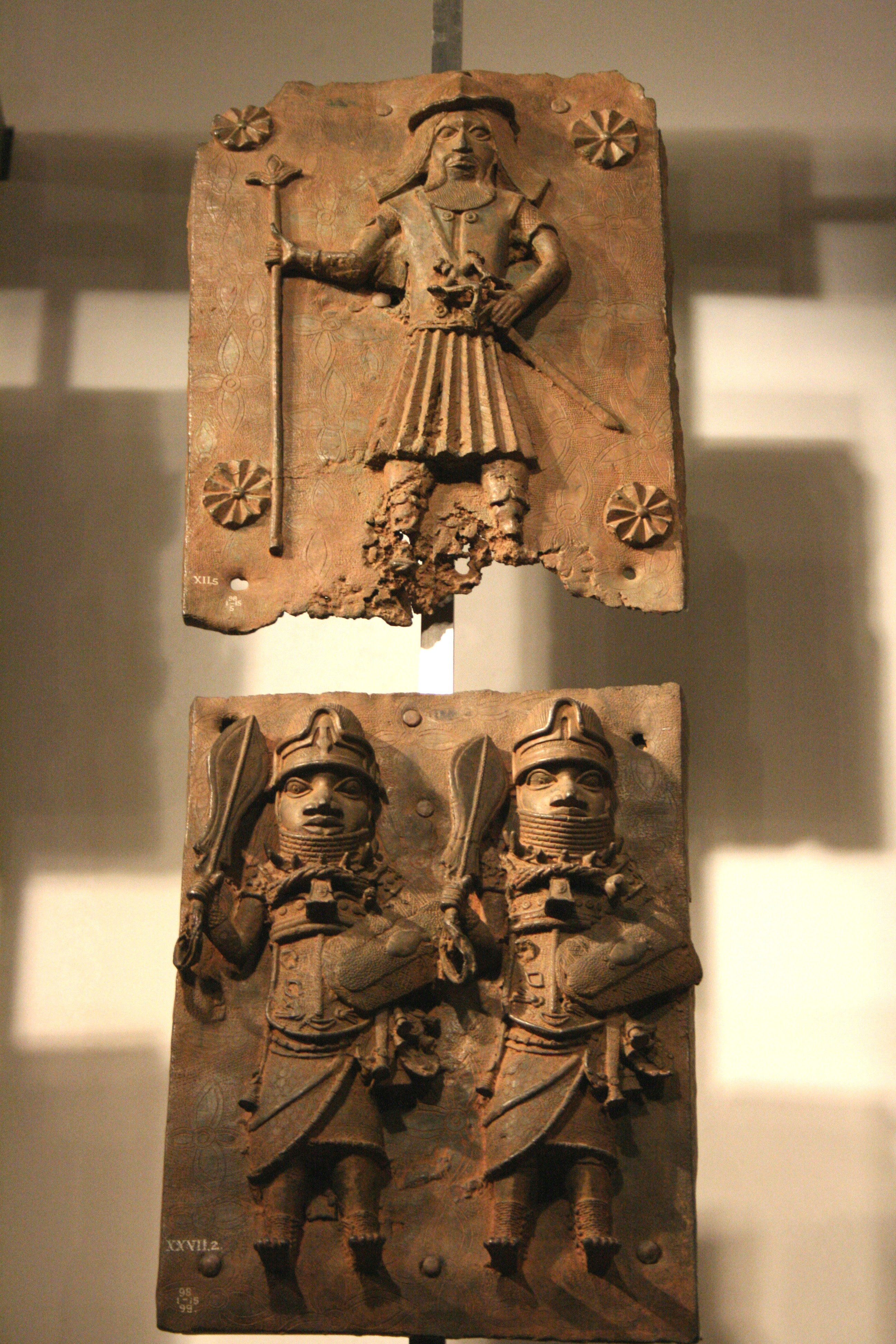 Brass plaque commonly known as "bronze". Benin kingdom (Nigeria). British Museum (London)